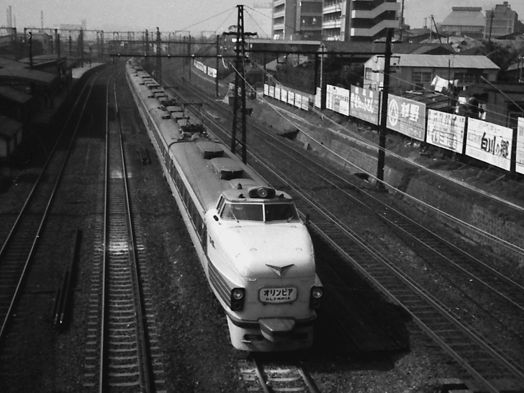 A JNR 151 series EMU near Shin-Koyasu Station on an Olympia express service